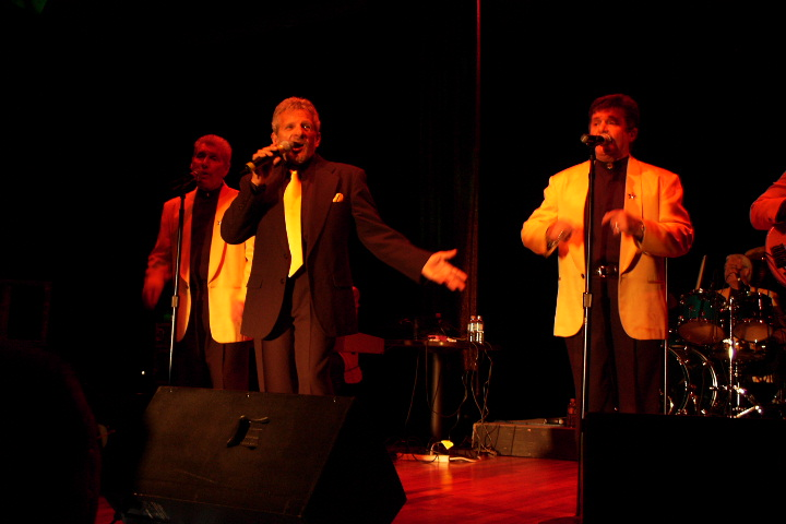 Johnny Maestro & The Brooklyn Bridge performing at The Celebrity Club in Las Vegas, NV on April 29, 2006.